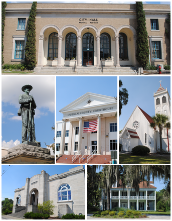 Photos I took in Palatka